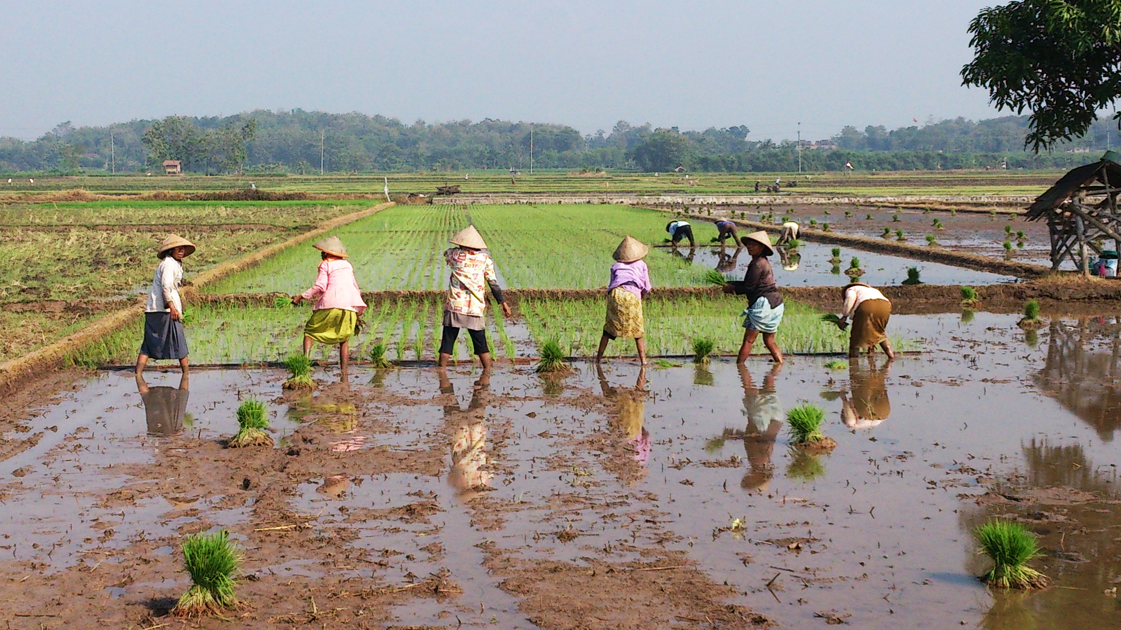 This image was captured on June 3, 2014, during the investigation of a leptospirosis outbreak in Nogosari, Boyolali, Indonesia. The Indonesian, Field Epidemiology Training Program (FETP) residents, interviewed farmers in this community, who work in rice paddies, like the one you see here, from dawn until dusk, and without wearing any footwear, placing them at high risk for contracting the bacterial infection, leptospirosis.